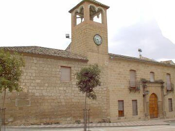 xxzxzxzxzx